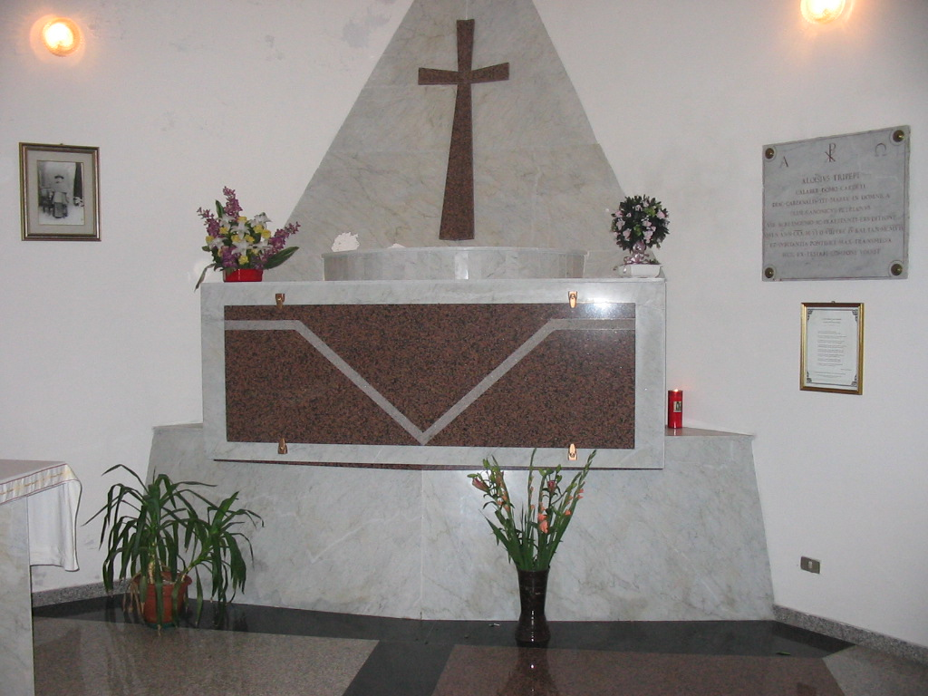 Author: Massimo Rodà (myself) Mausoleo of the cardinal Luigi Tripepi, Mallemace di Cardeto (RC), Italy